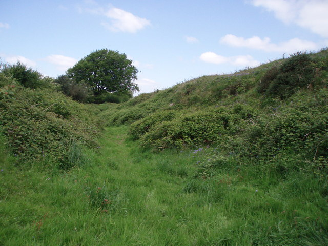 Maesbury Castle. This iron age hill fort lies on a 290m hill to the west of the village of Oakhill. The view here shows the ditch and rampart, now quite overgrown, on the southwest side of the hill fort.